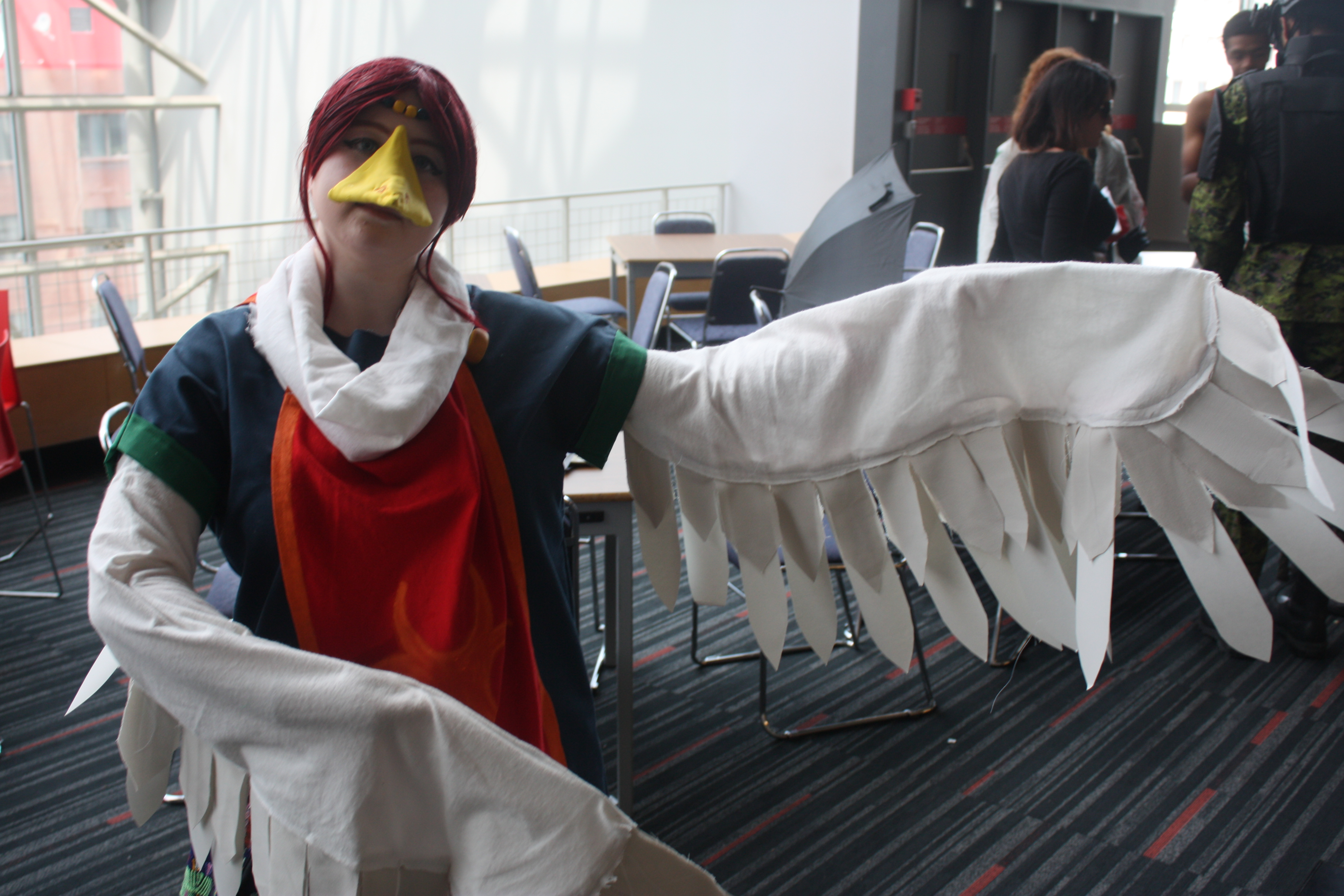 Cosplay one day two of Montreal Comiccon 2015.